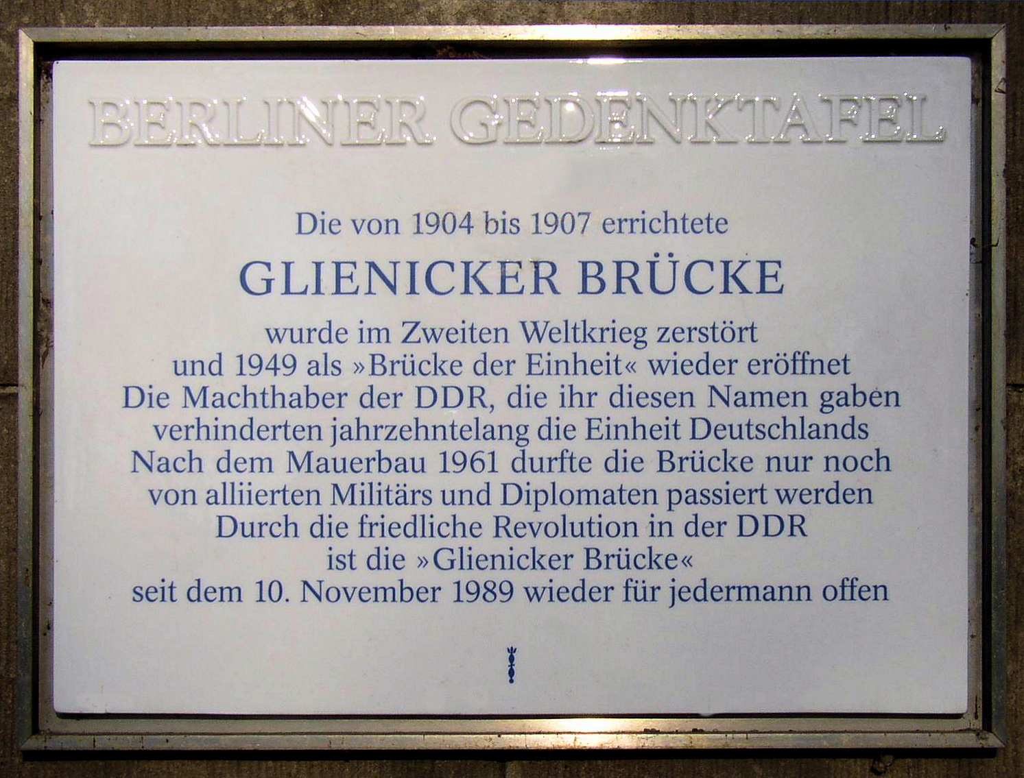 Berlin memorial plaque, Glienicker Brücke, Glienicker Brücke , Berlin-Wannsee, Germany Koordinate:52°24′48″N 13°5′28″E / 52.41333°N 13.09111°E